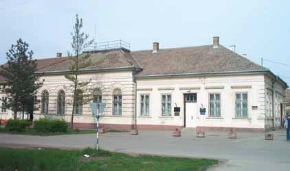 Governmental office of Jabuka, village of Pančevo municipality. Public cultural monument, built in 1901.